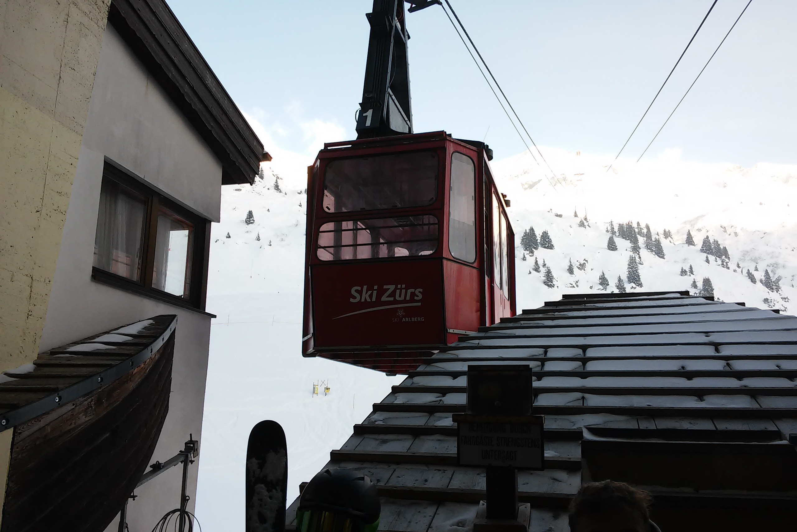 Old cable railway "Trittkopfbahn" in Zürs (Arlberg). 2016 replaced.